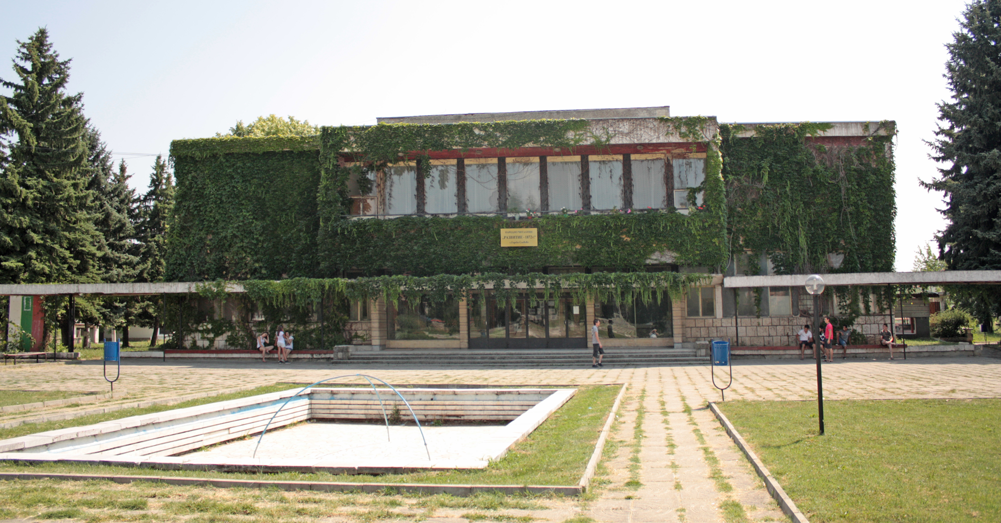 Chitalishte (culture club) in the village of Gorsko Slivovo in Letnitsa Municipality, Lovech Province, Bulgaria